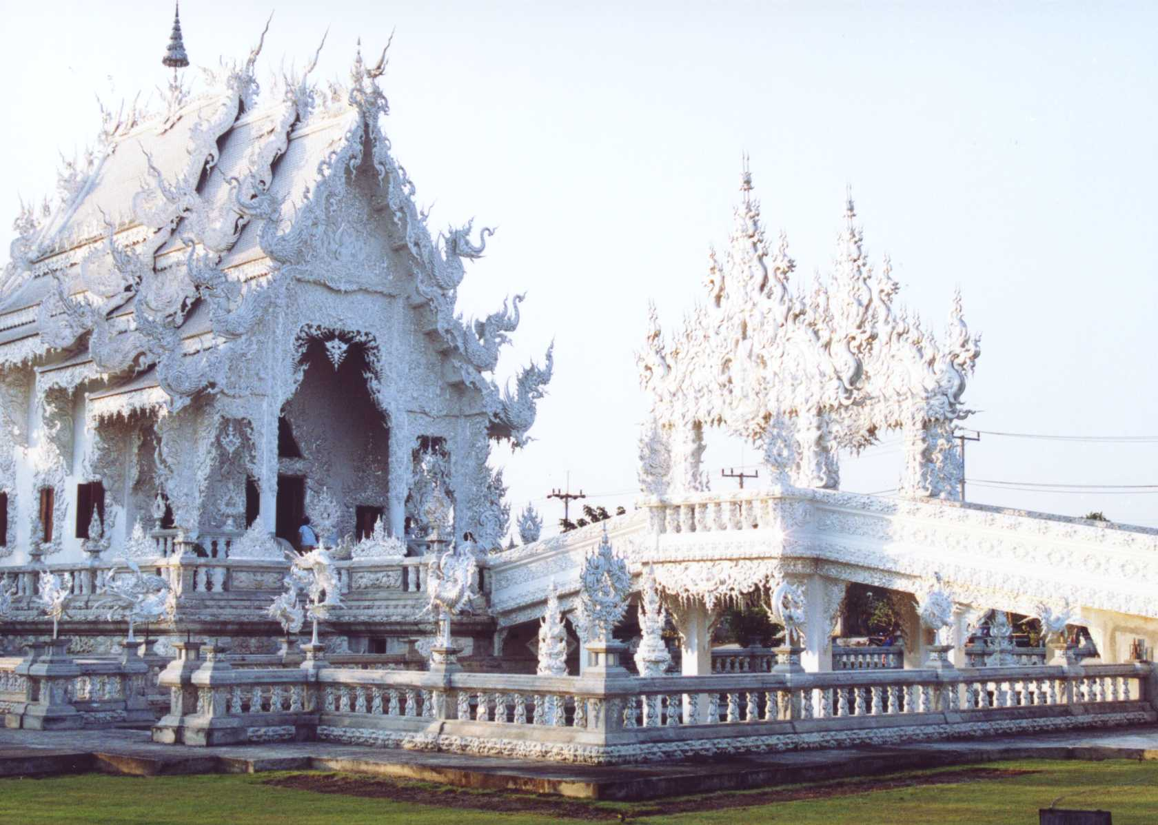 Wat Rong Khun (วัดร่องขุ่น), a modern temple built since 1998 by Thai artist Chalermchai Kositpipat near Chiang Rai. Photo taken by User:Ahoerstemeier on February 2 2006